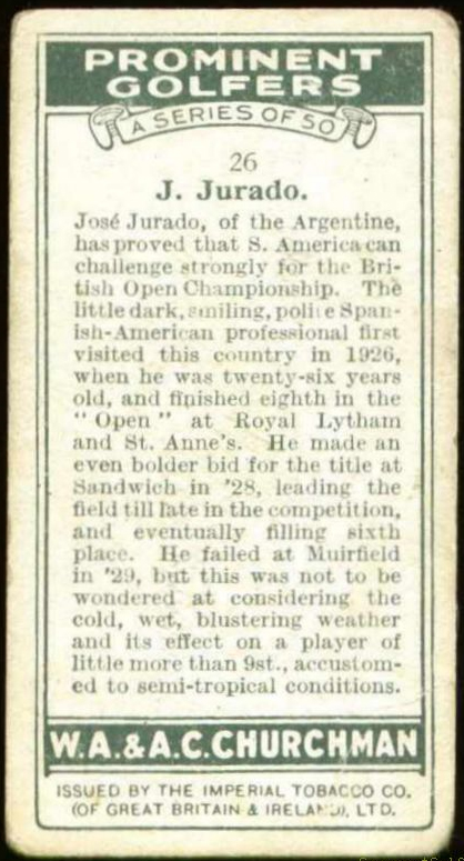 Churchman's Tobacco, Prominent Golfers series, #26: J. Jurado